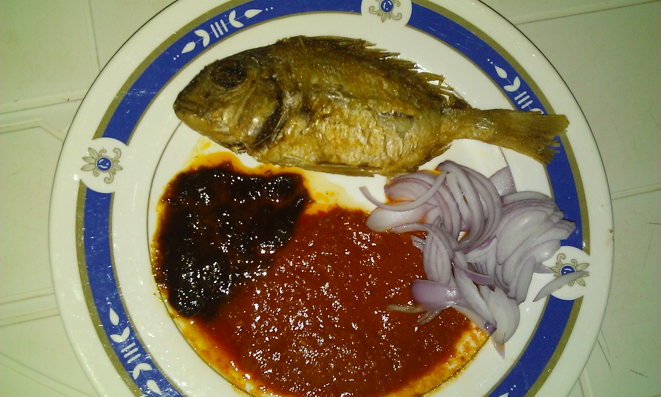 A sample of fried red fish made the Ghanaian way accompanied by ground red chili pepper,shito and sliced onions. This is an image of food from Ghana